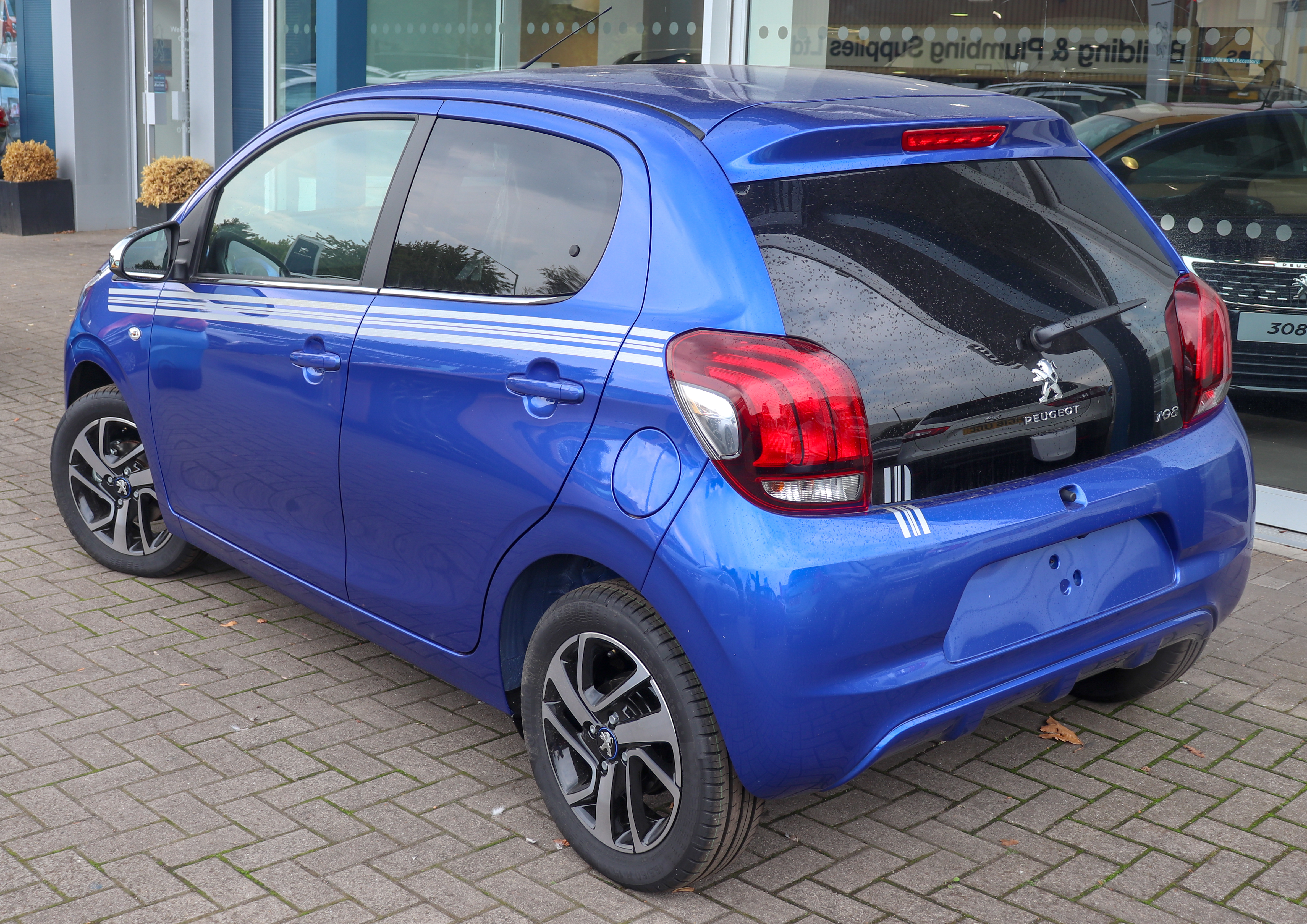 2018 Peugeot 108 Collection 1.0 Rear Taken in Leamington Spa